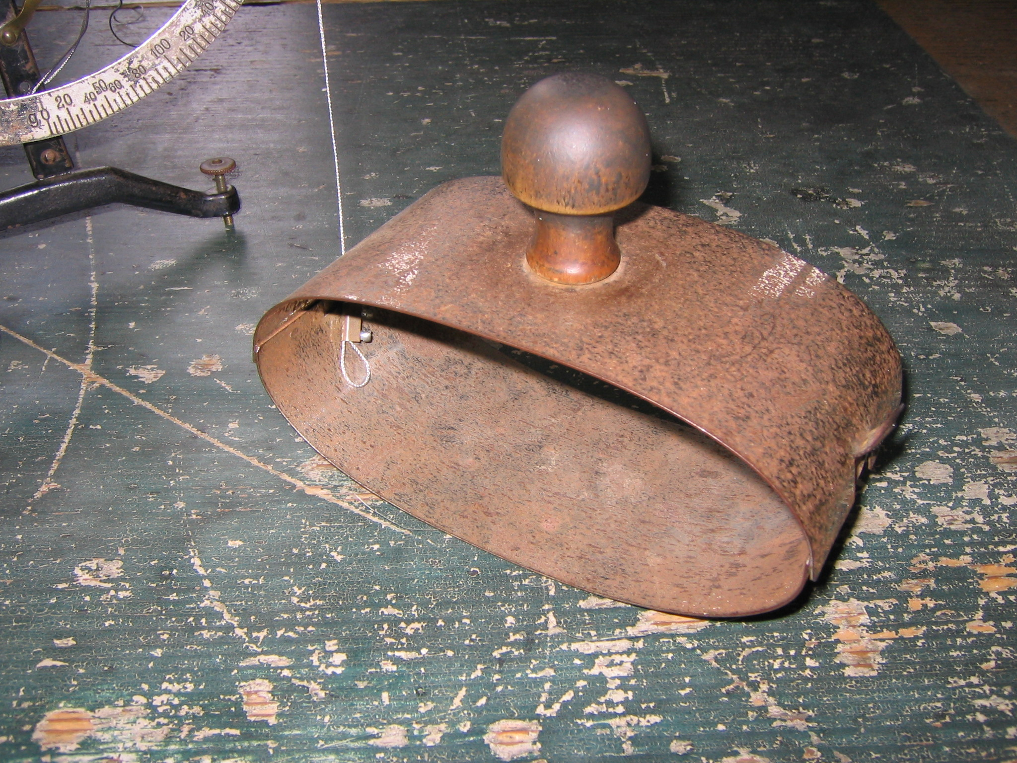 Holder for blotting paper] at the Freilichtmuseum Neuhausen ob Eck